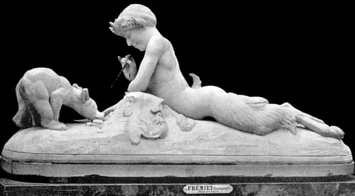 Pan et Oursons (Pan and the bear cubs). Statue by Emmanuel Frémiet (1864) Photo from the Introduction to Les Chefs-d'Oeuvre de la Peinture au Musée du Luxembourg, Paris c. 1914 Scanned, digitally adjusted and uploaded by User:Lee M